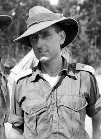 Lieutenant Colonel Bernard Callinan, commanding officer of the 26th Infantry Battalion, Bougainville.